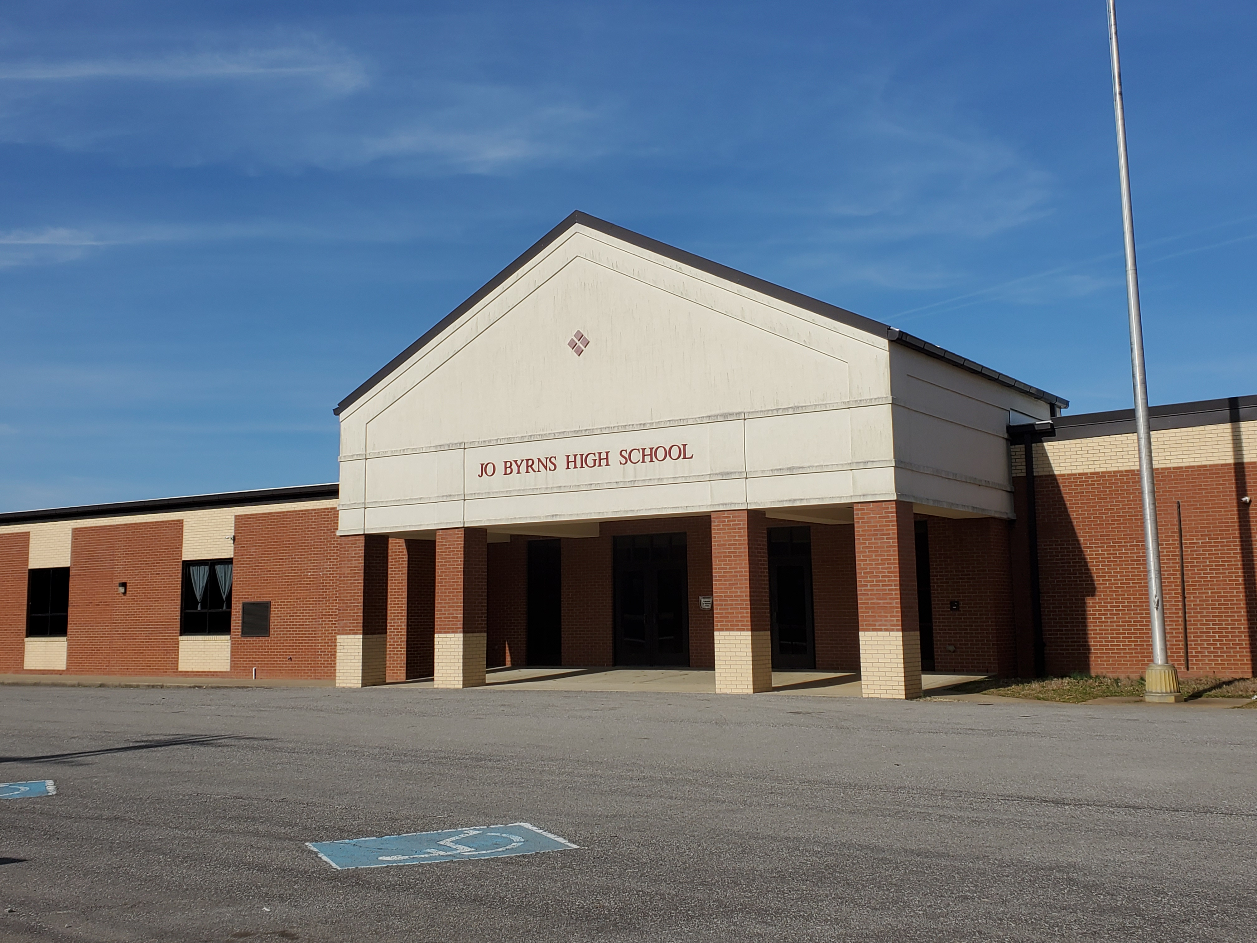 Jo Byrns High School's main entrance on February 22, 2020